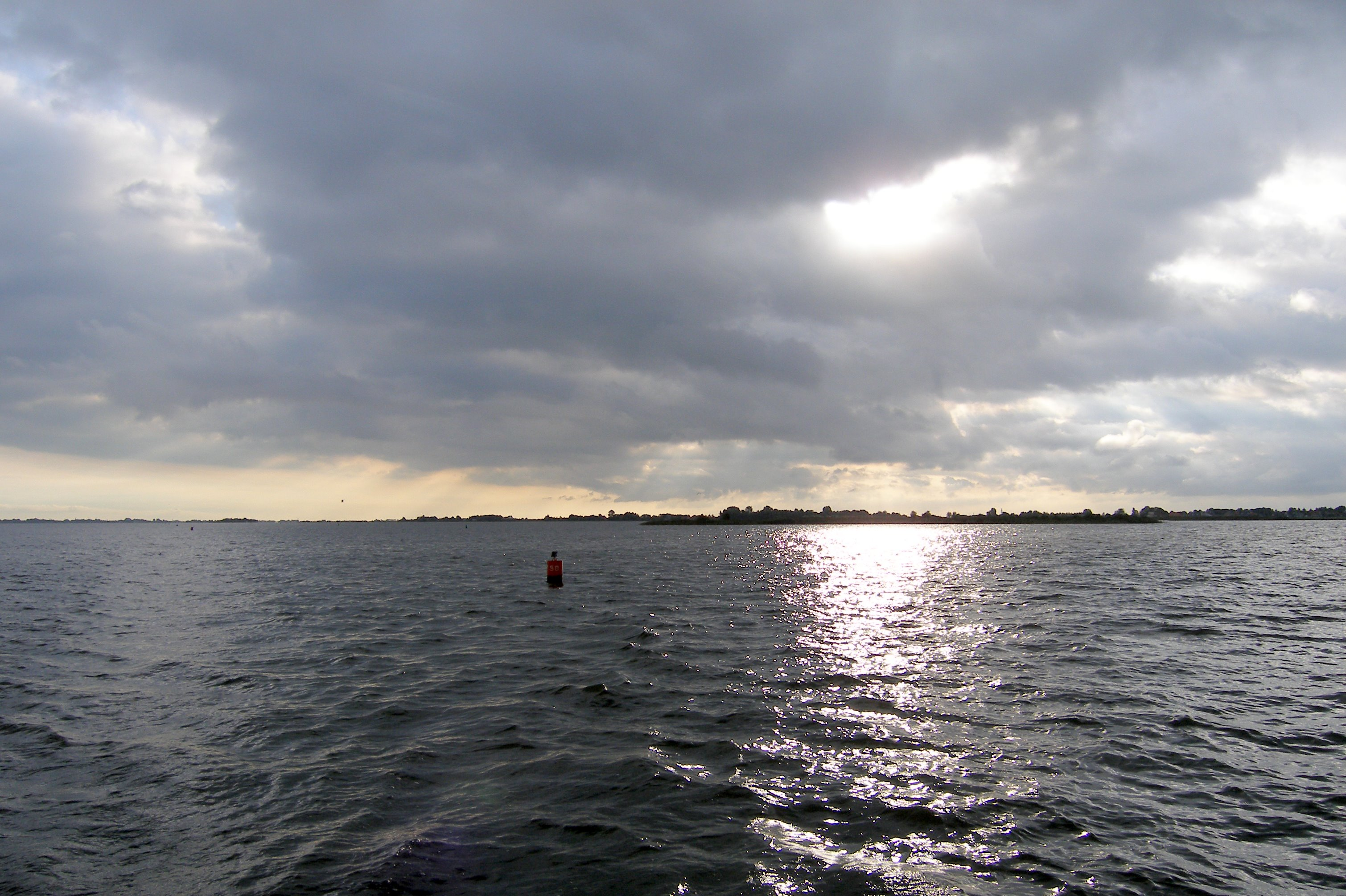 De Fluessen, a lake in Friesland, viewed in the direction of Elahuizen.